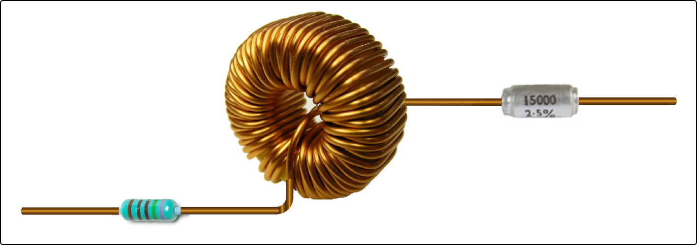 Pictorial representation of an RLC circuit.